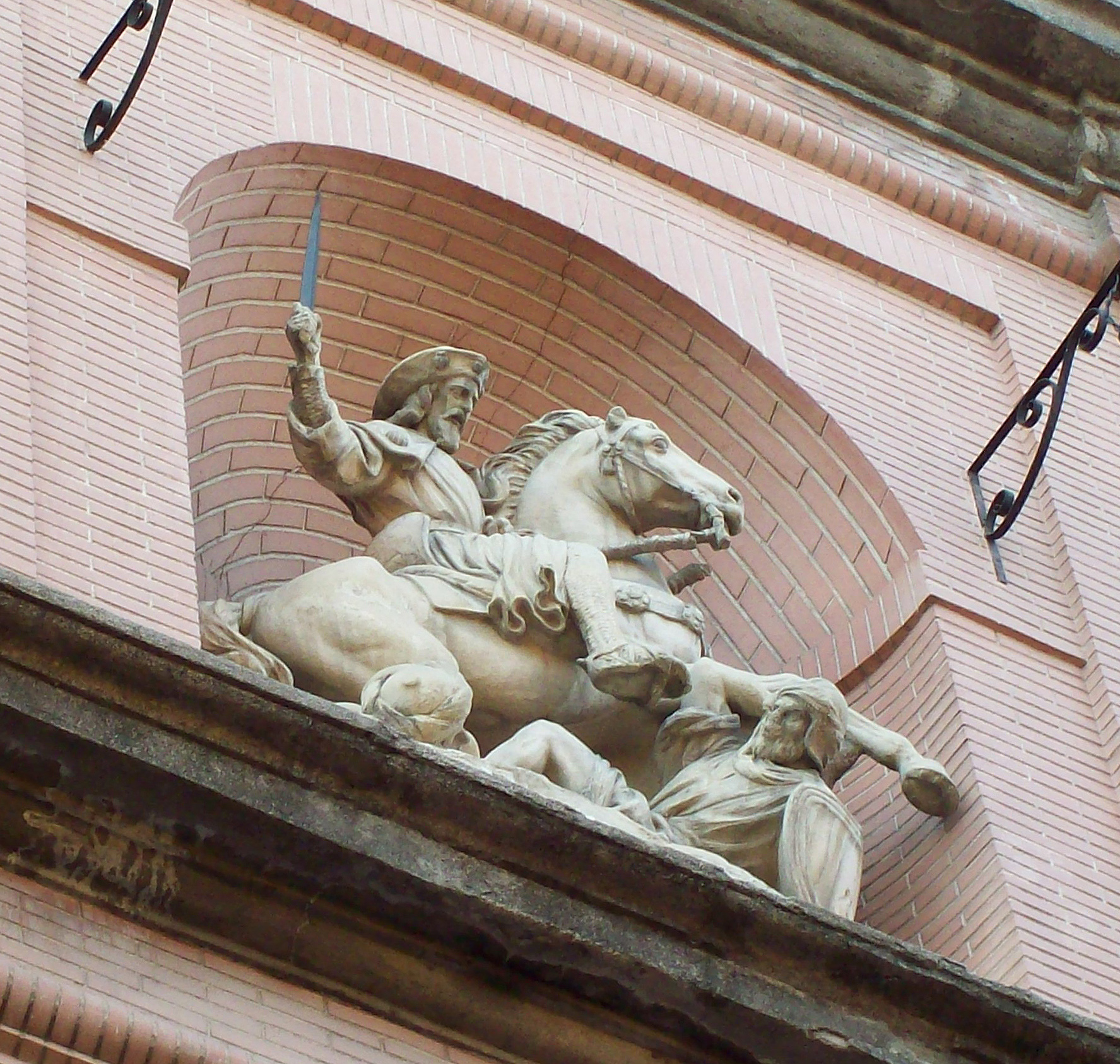 Sculpture of Saint James the Moorslayer at the façade of the Convento de las Comendadoras de Santiago (a convent) in Madrid (Spain).